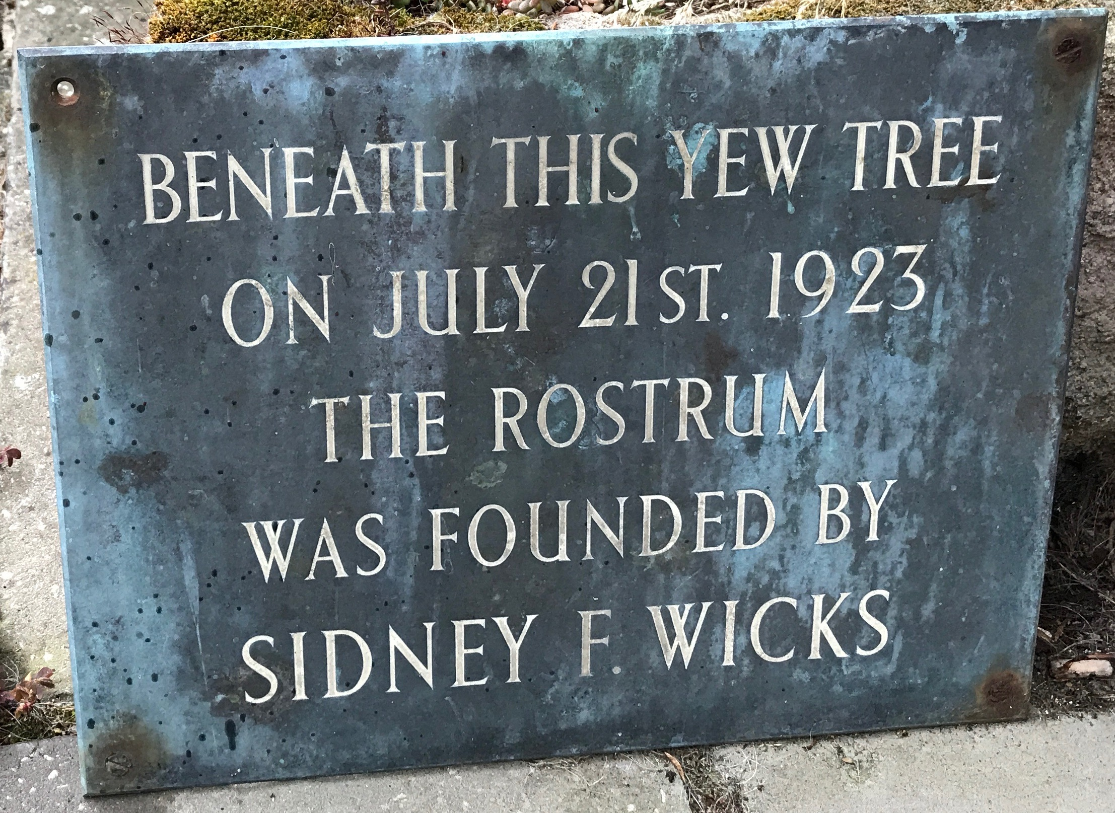 Plaque from Yew Tree Greendale Farm recognising Sidney F Wicks starting of The Rostrum Club